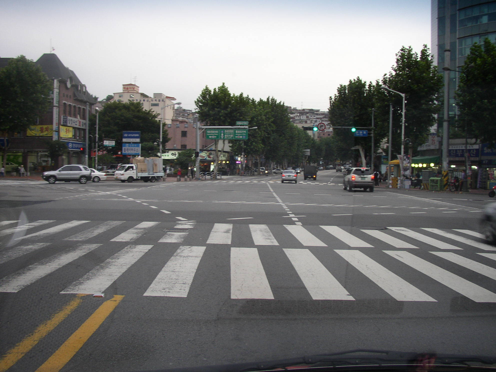 I-Hwa-dong_intersection